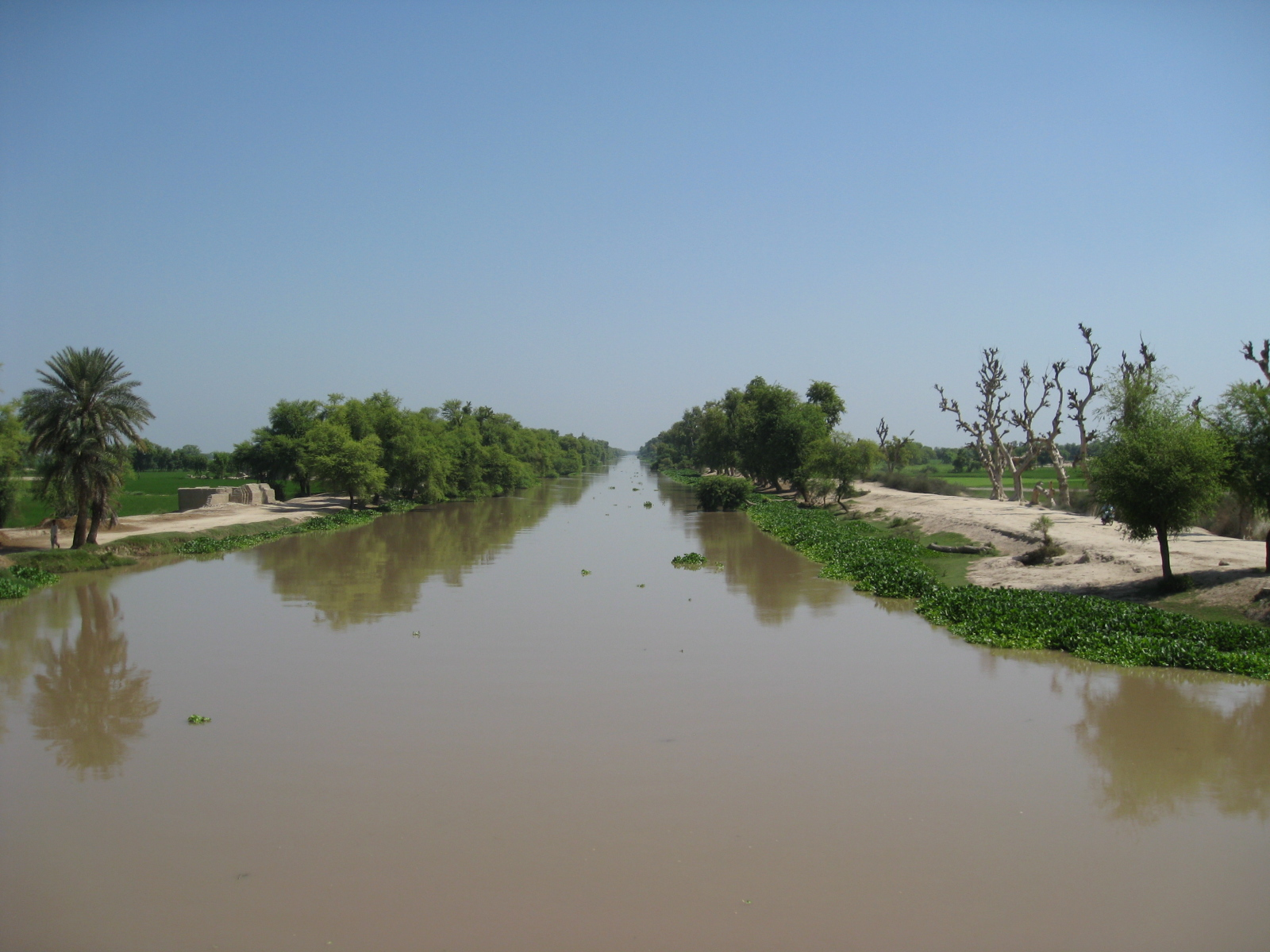 Bahawal Canal